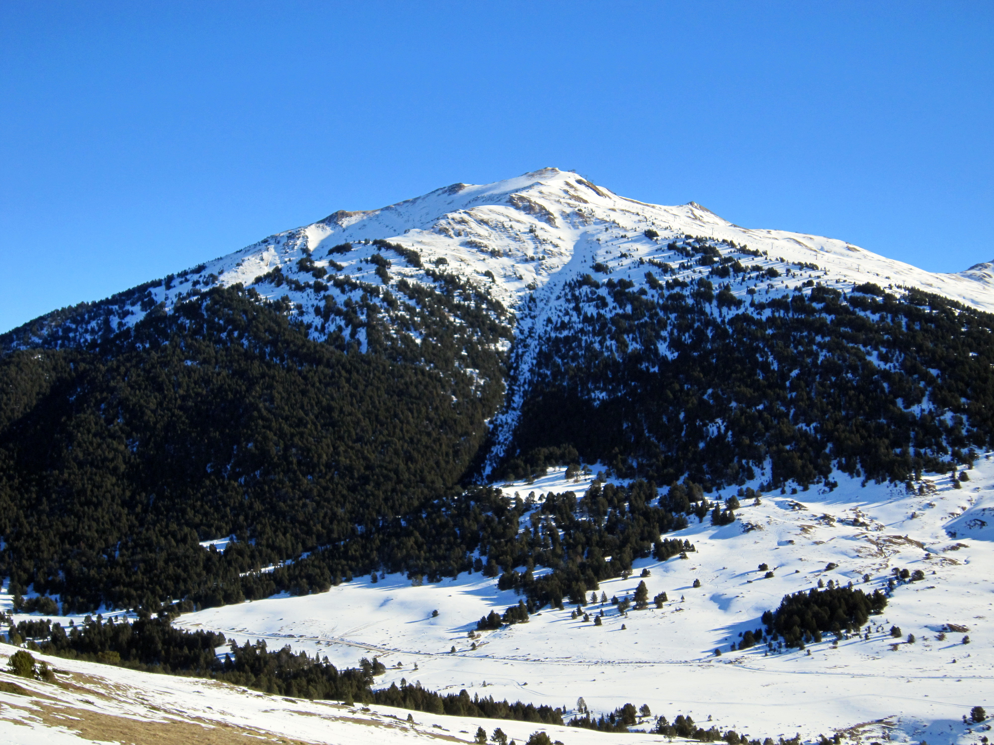 Tuc deth Dossau